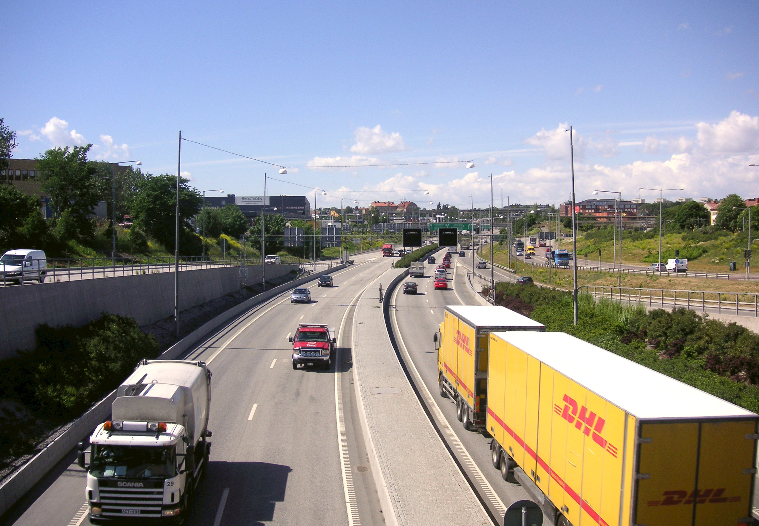 Årstalänken in Stockholm